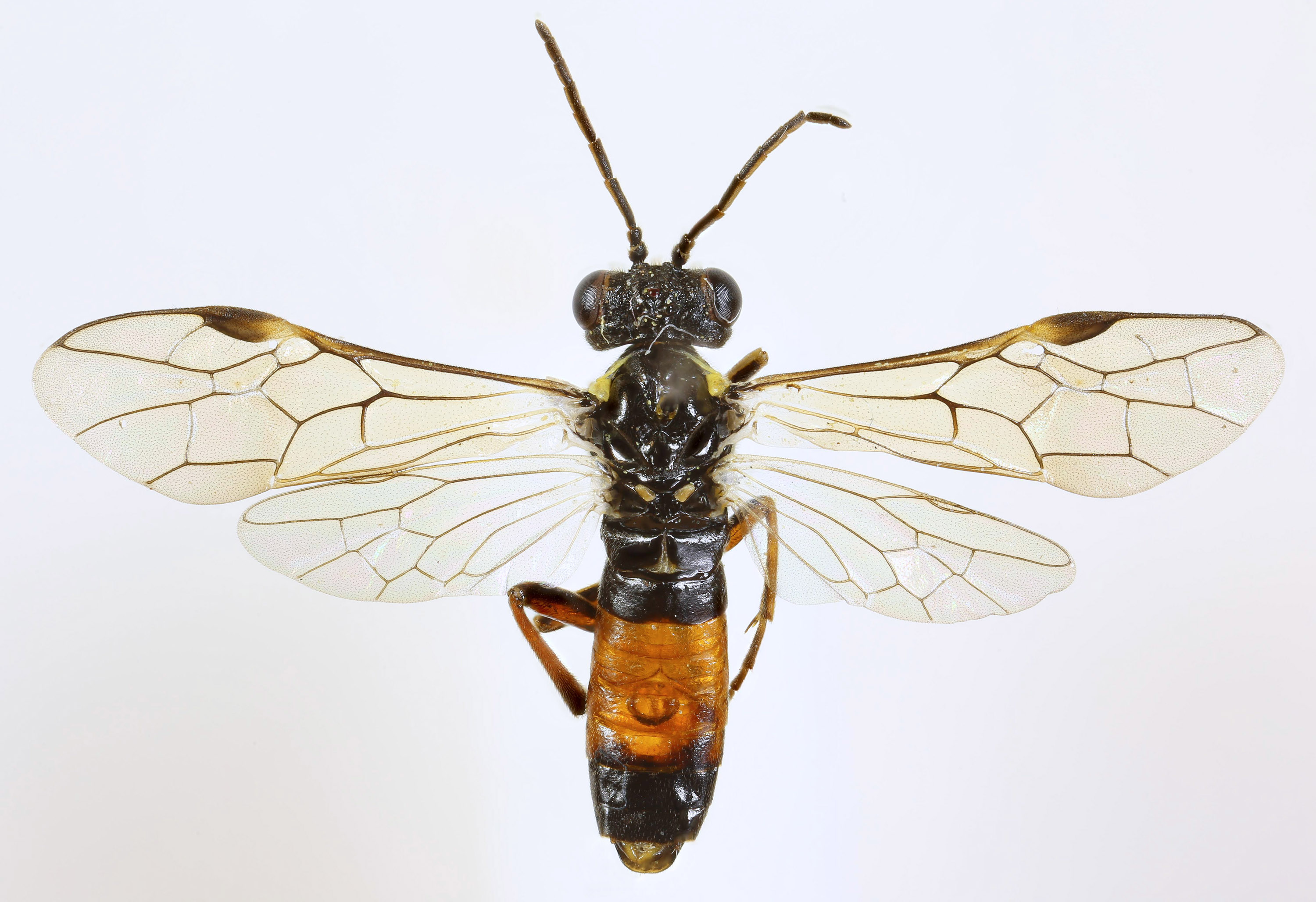 Aglaostigma aucupariae, Pystyll Gwyn quarry, North Wales, May 2016 2